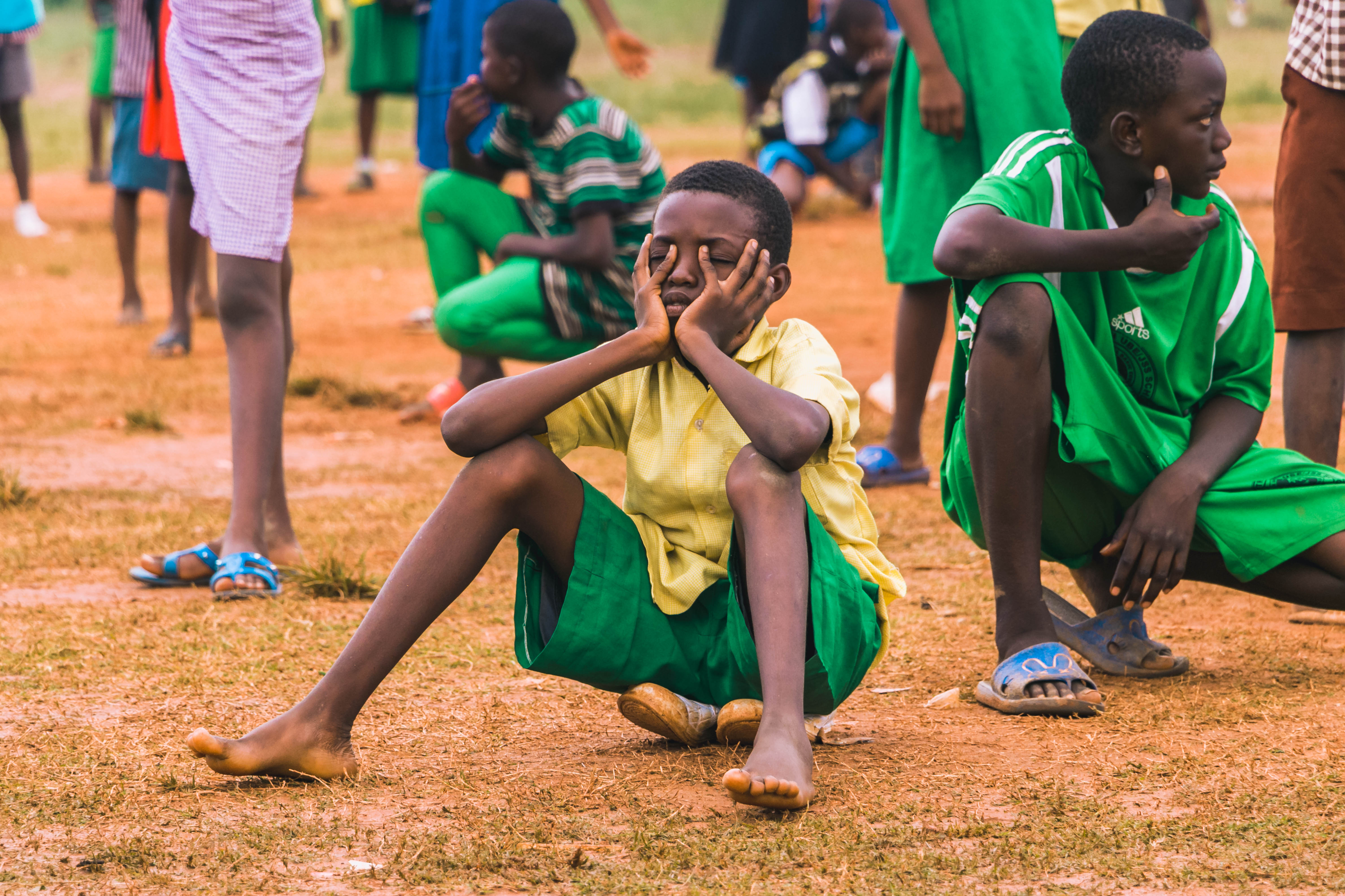 Here is an image of a child tired an stressed after a long day of playing and running around This is an image with the theme "Play" from: Nigeria